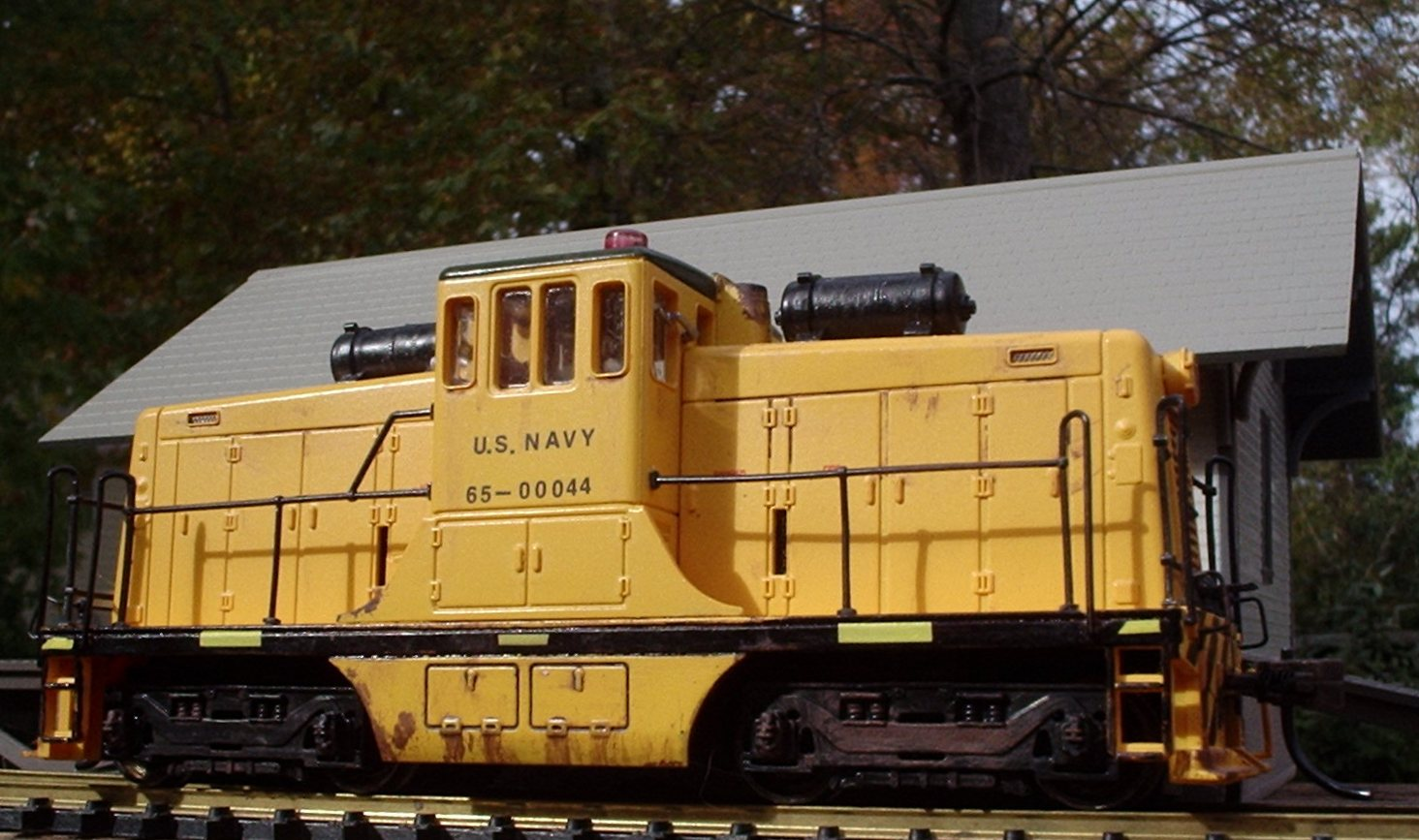 Photo by William J. Grimes of USNX 65-00044, HO scale GE 44 Tonner.